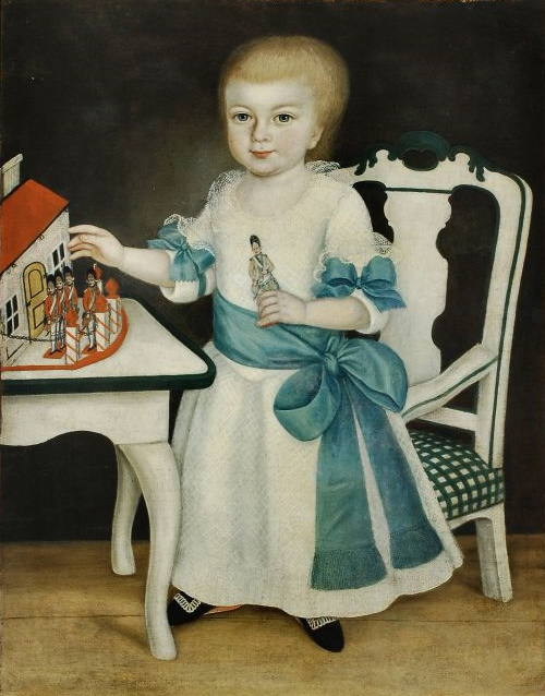 Child with toy soldiers, oil on canvas, 82 x 64,5 cm.